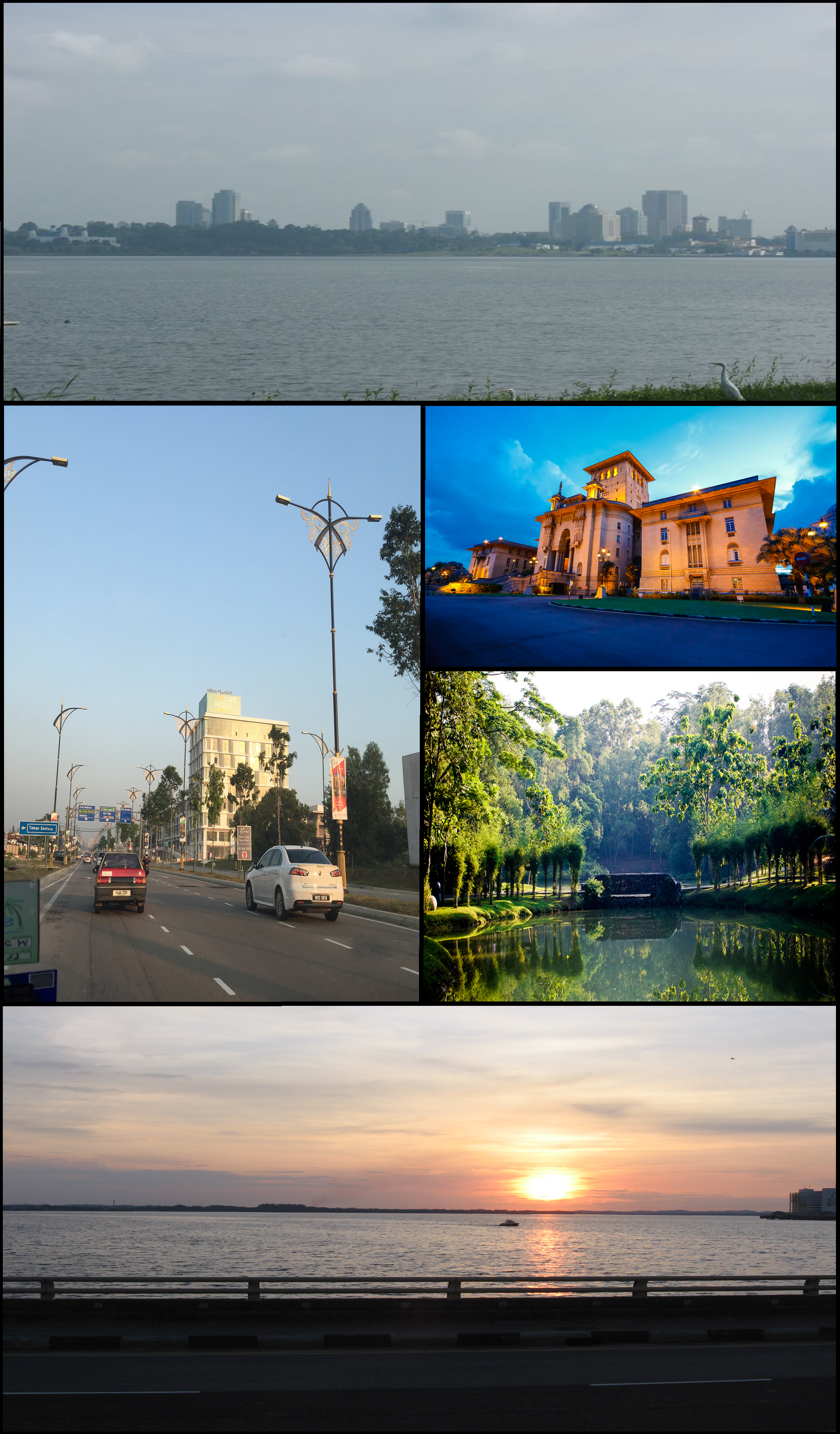 A composite image of some sights in Johor Bahru.